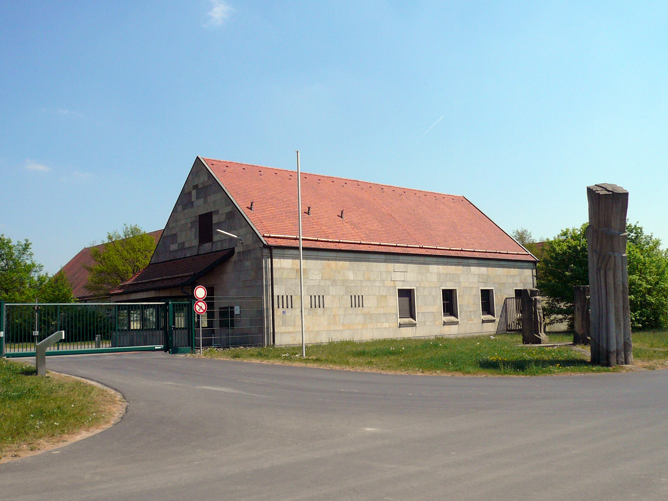 Satellite ground station Fuchsstadt, Germany, operation-building